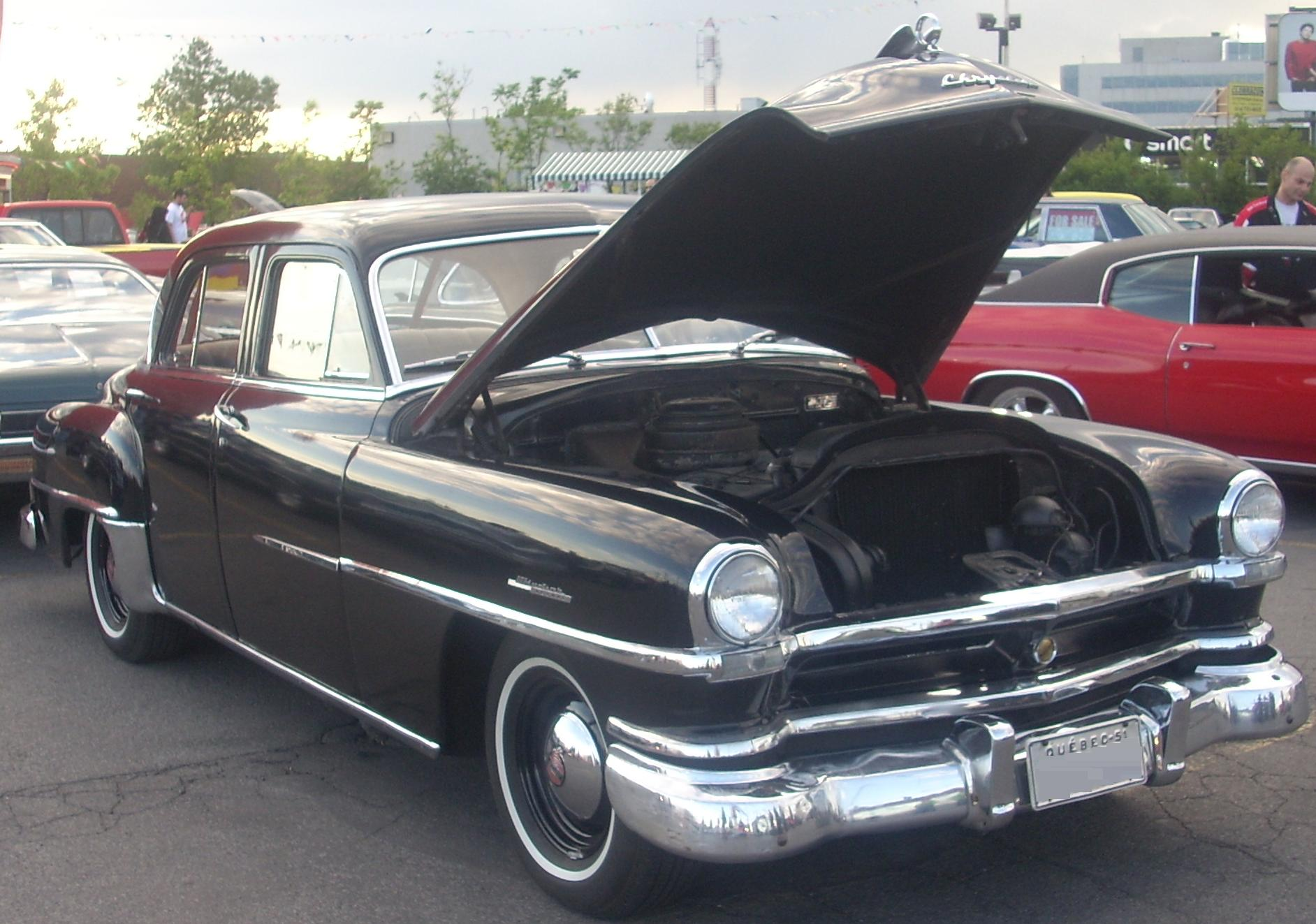 1951 Chrysler Windsor photographed in Montreal, Quebec, Canada at Gibeau Orange Julep.